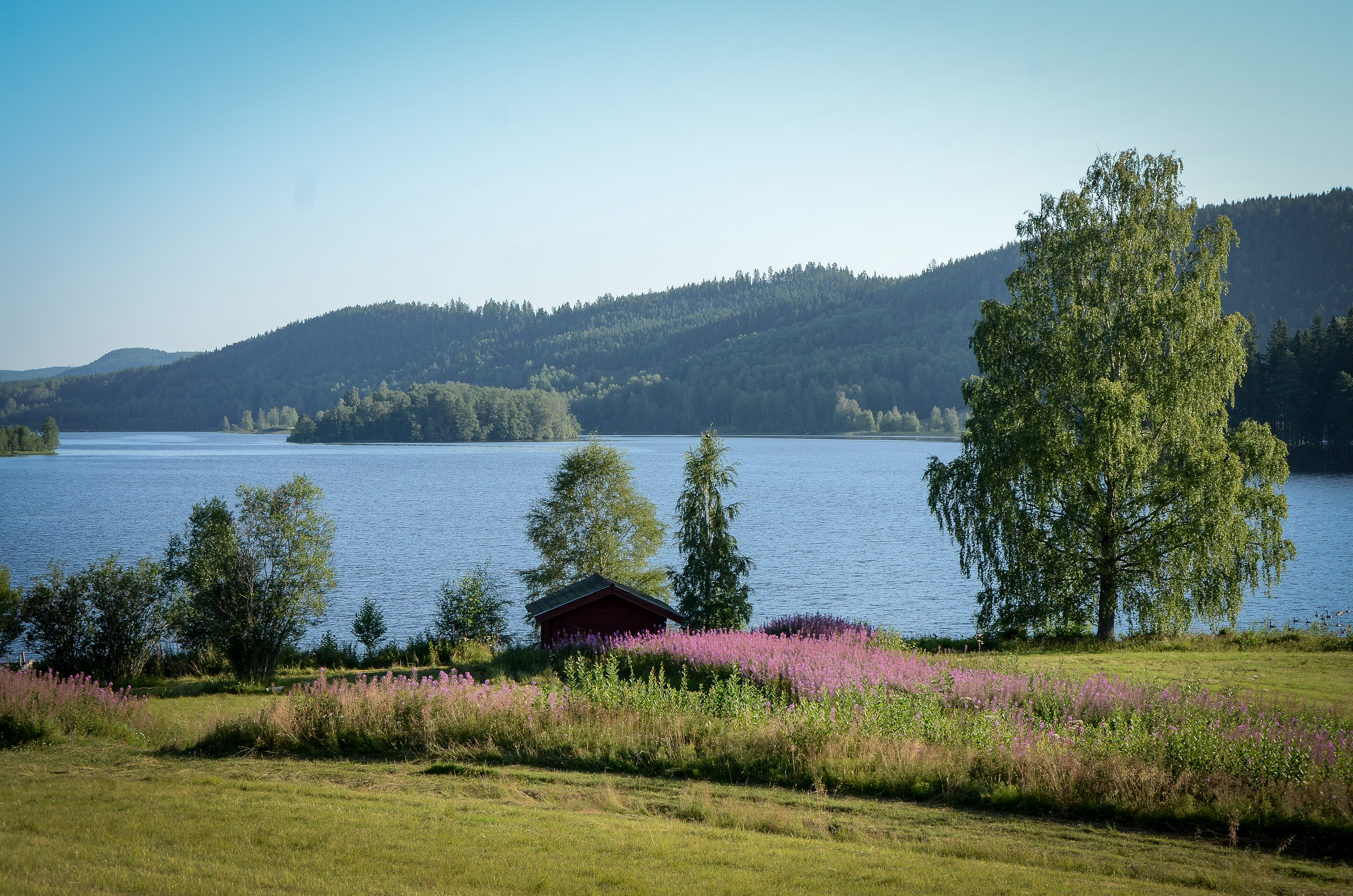 The lake Lidsjön with Lillön and Lidsberget in the background.